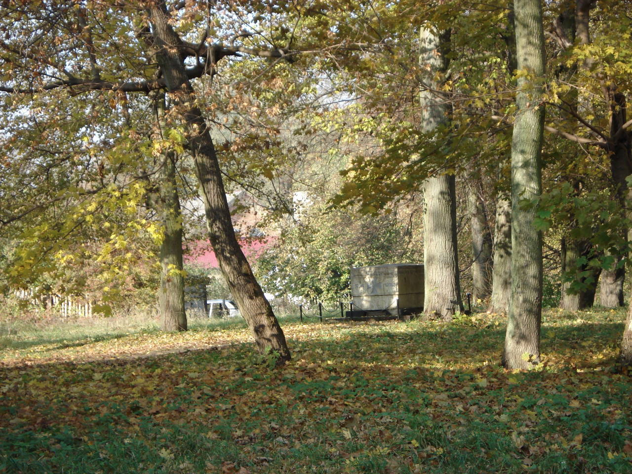 Waldau Castle in Nizowje (Oblast Kaliningrad), Monument for the Victims of the World War I.